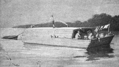 A flatboat sailing along the Tennessee River, in the southeastern United States. Flatboats were frequently used in the region before the advent of steamboats.